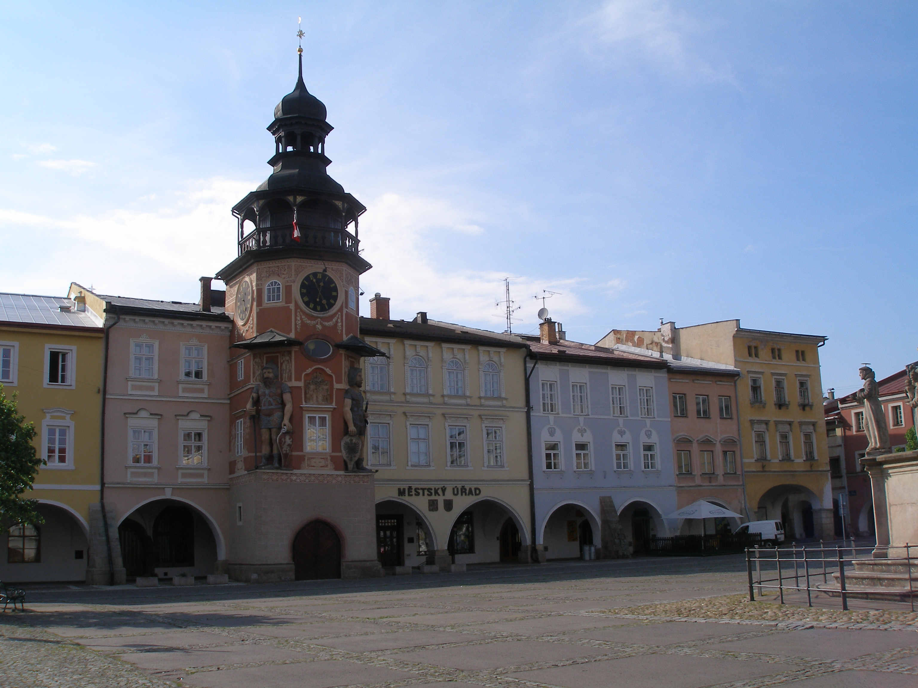 Hostinné (Arnau), the middle and the Northern part of the Western side of the square